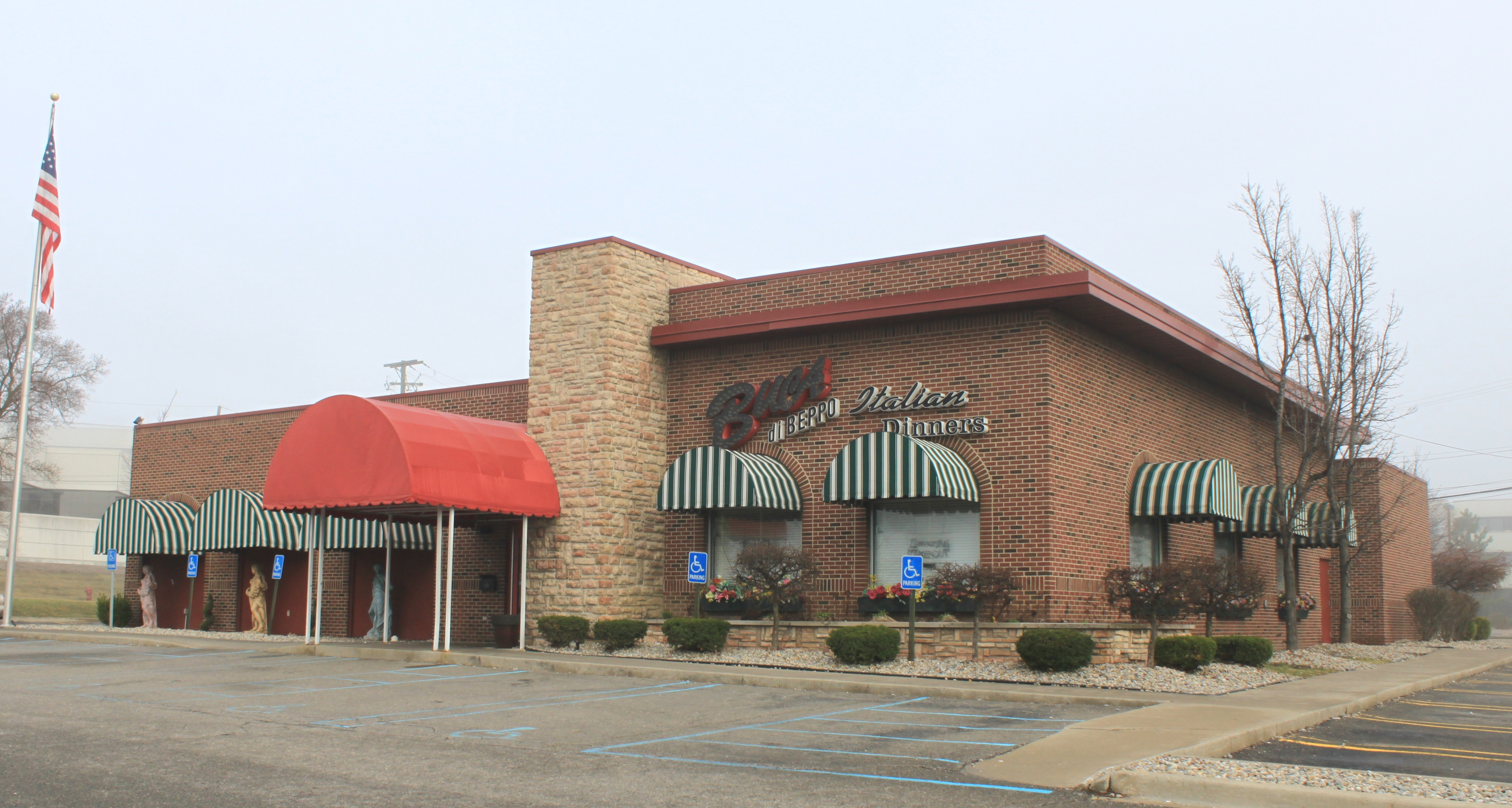 Buca di Beppo Italian restaurant, 38888 Six Mile Road, Livonia, Michigan.